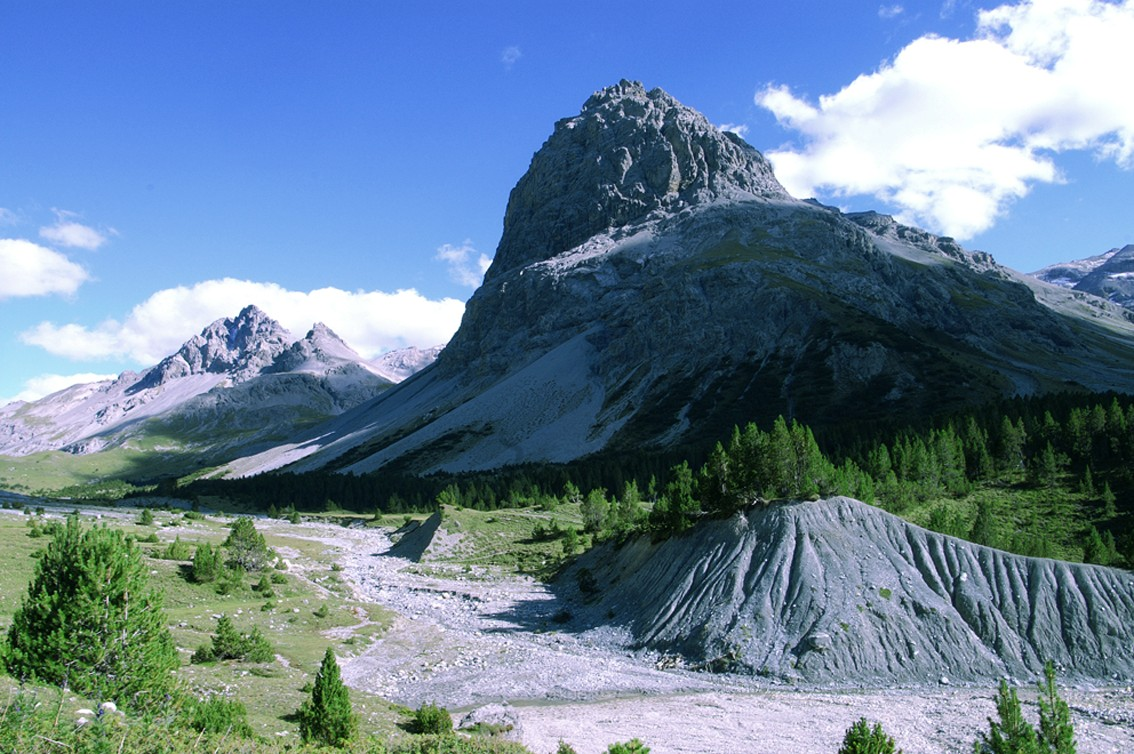 Val Mora, Graubünden